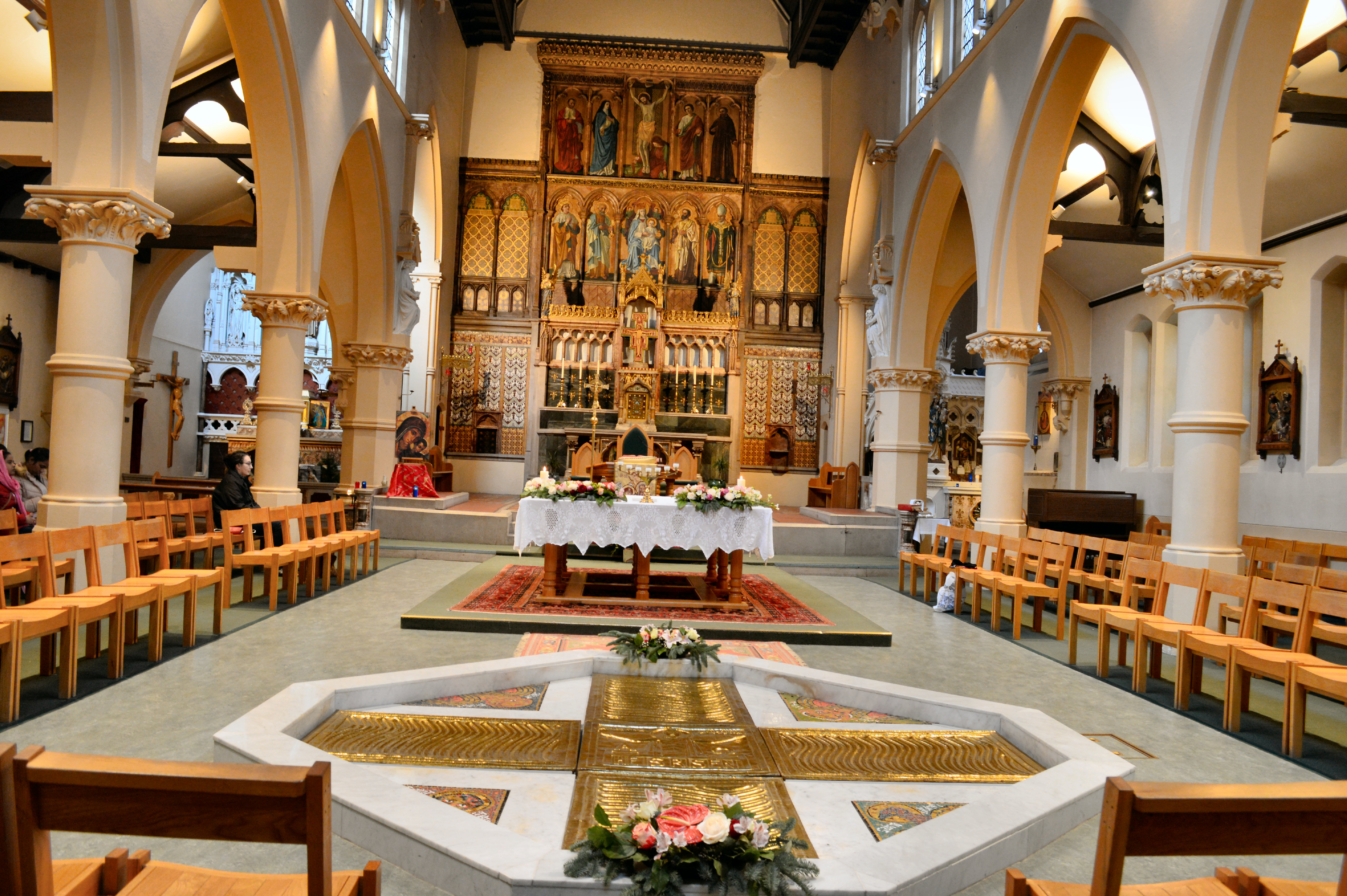 Westminster, St Charles Borromeo Catholic Church, nave and sanctuary